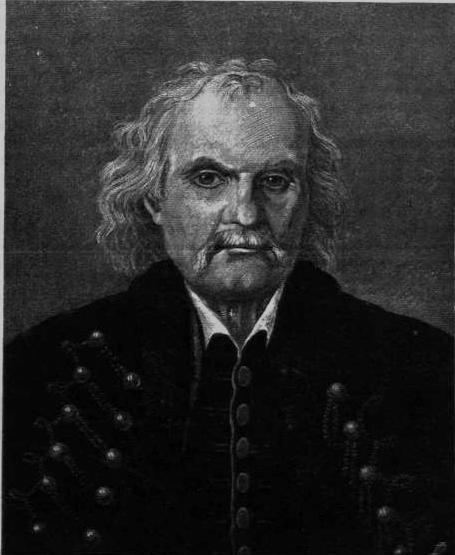 Portrait of György Falkoner